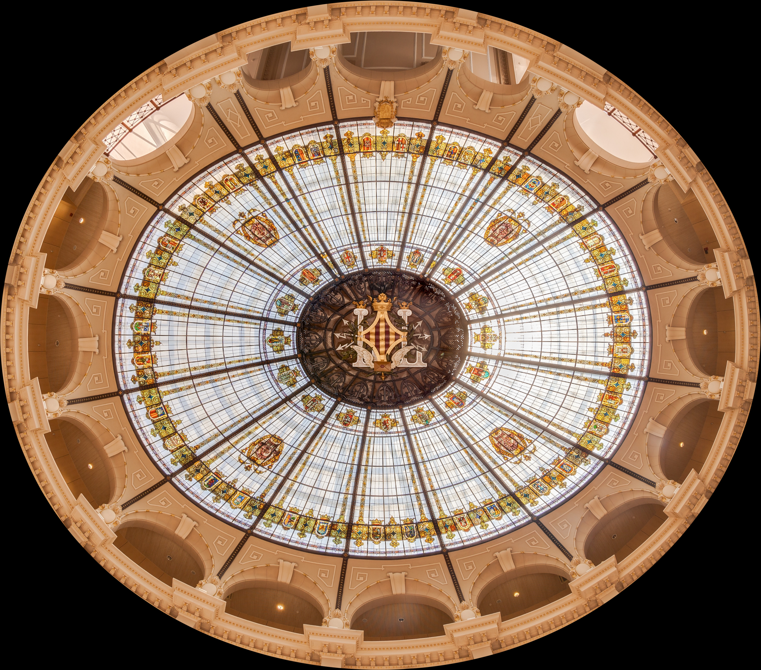 Interior view of the dome of post office, Valencia, Spain